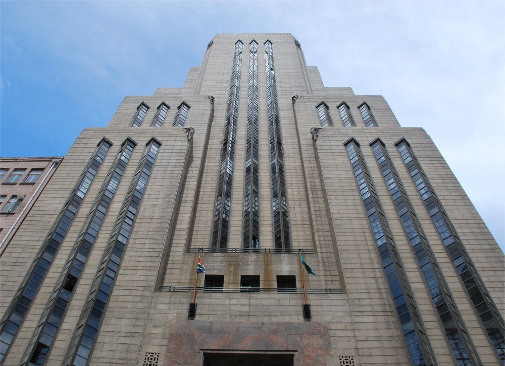 Front centre view of the Mutual Building, Darling Street, Cape Town.